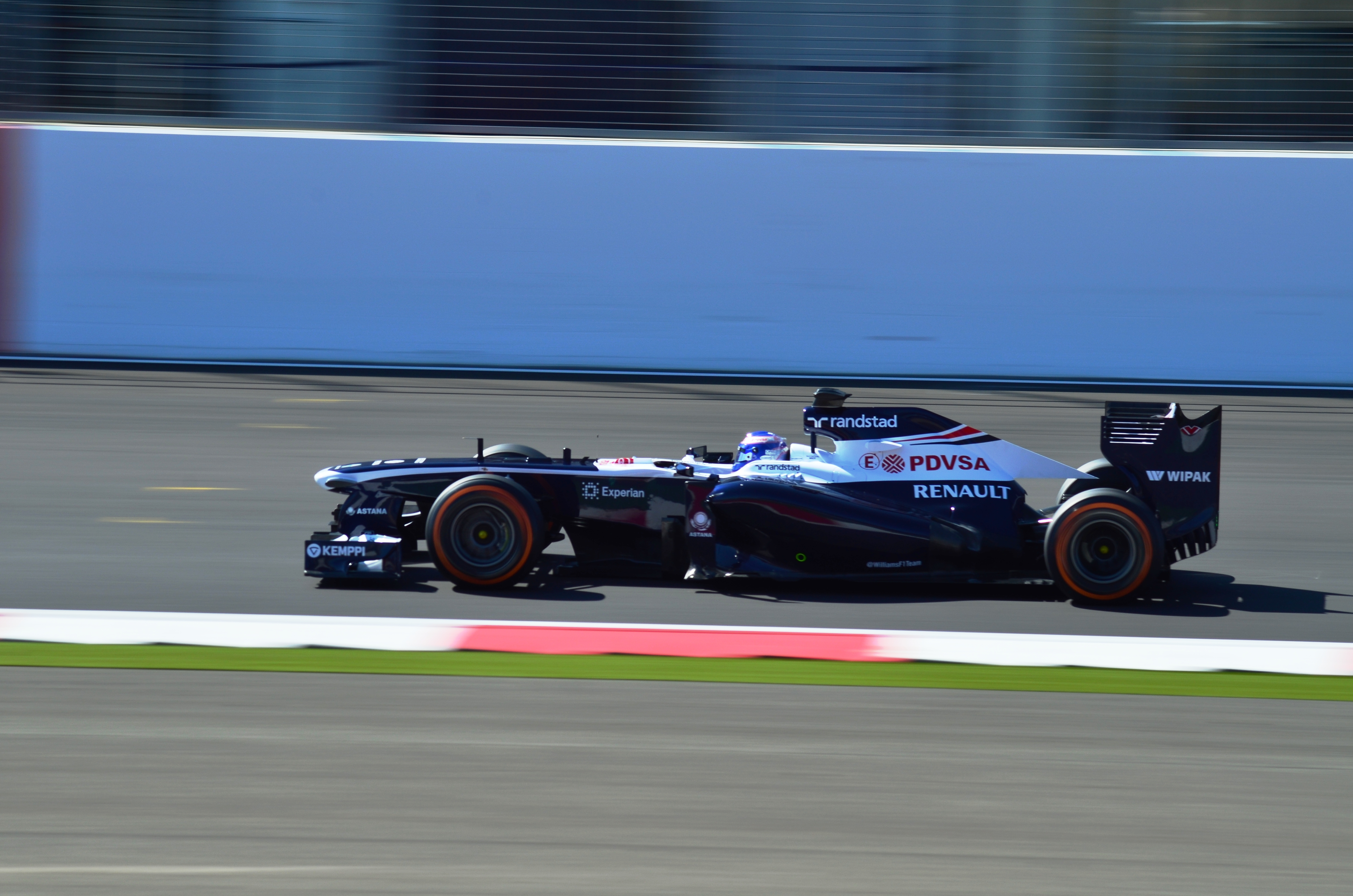 Susie Wolff driving the Williams Renault at the Young Drivers' Test at Silverstone on 19th July 2013. She posted the 9th fastest time of the day, 1m35.093s, after completing 89 laps.